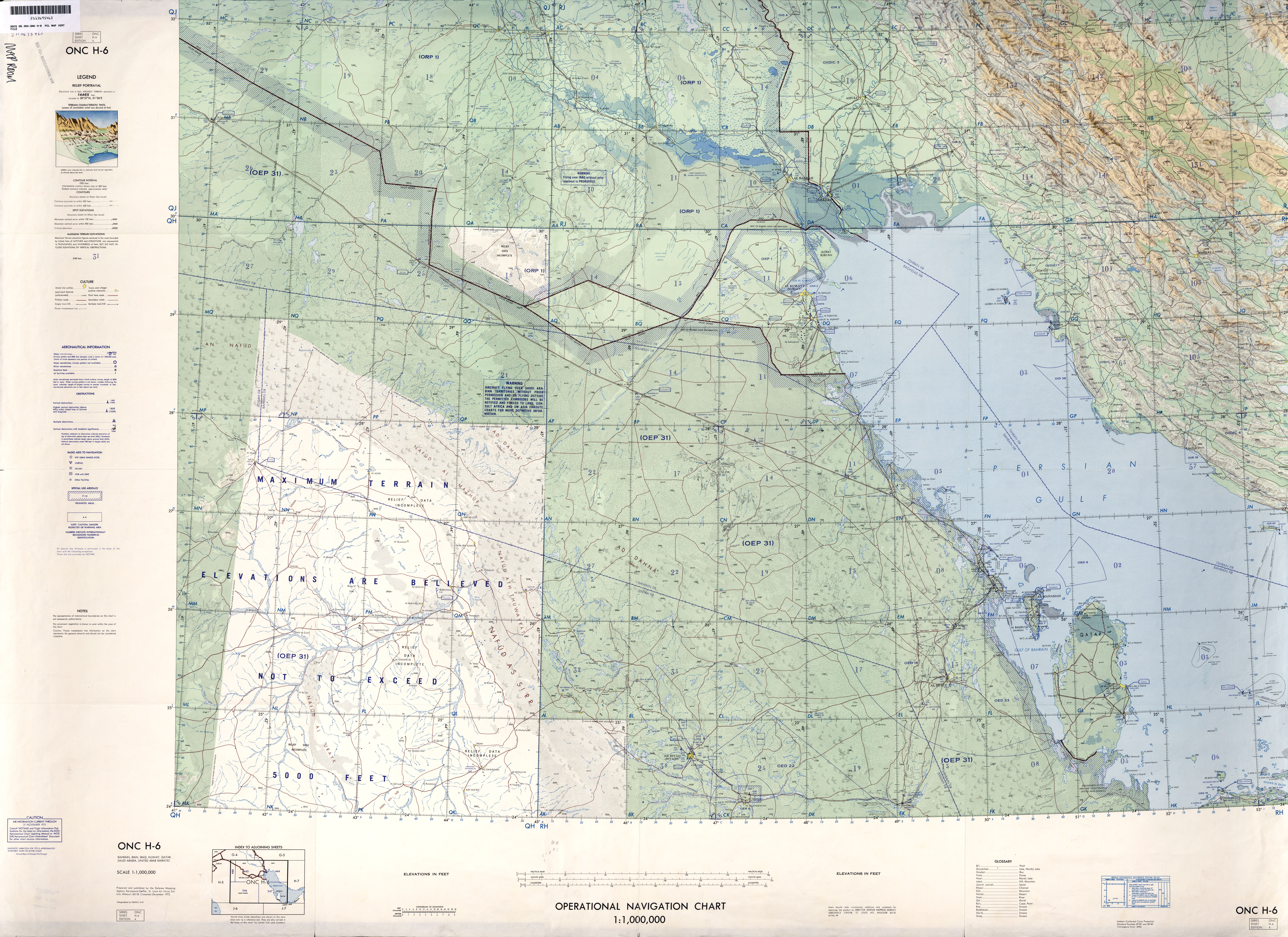 ONC Chart sheet of Middle East, showing former Iraq-Saudi Neutral Zone